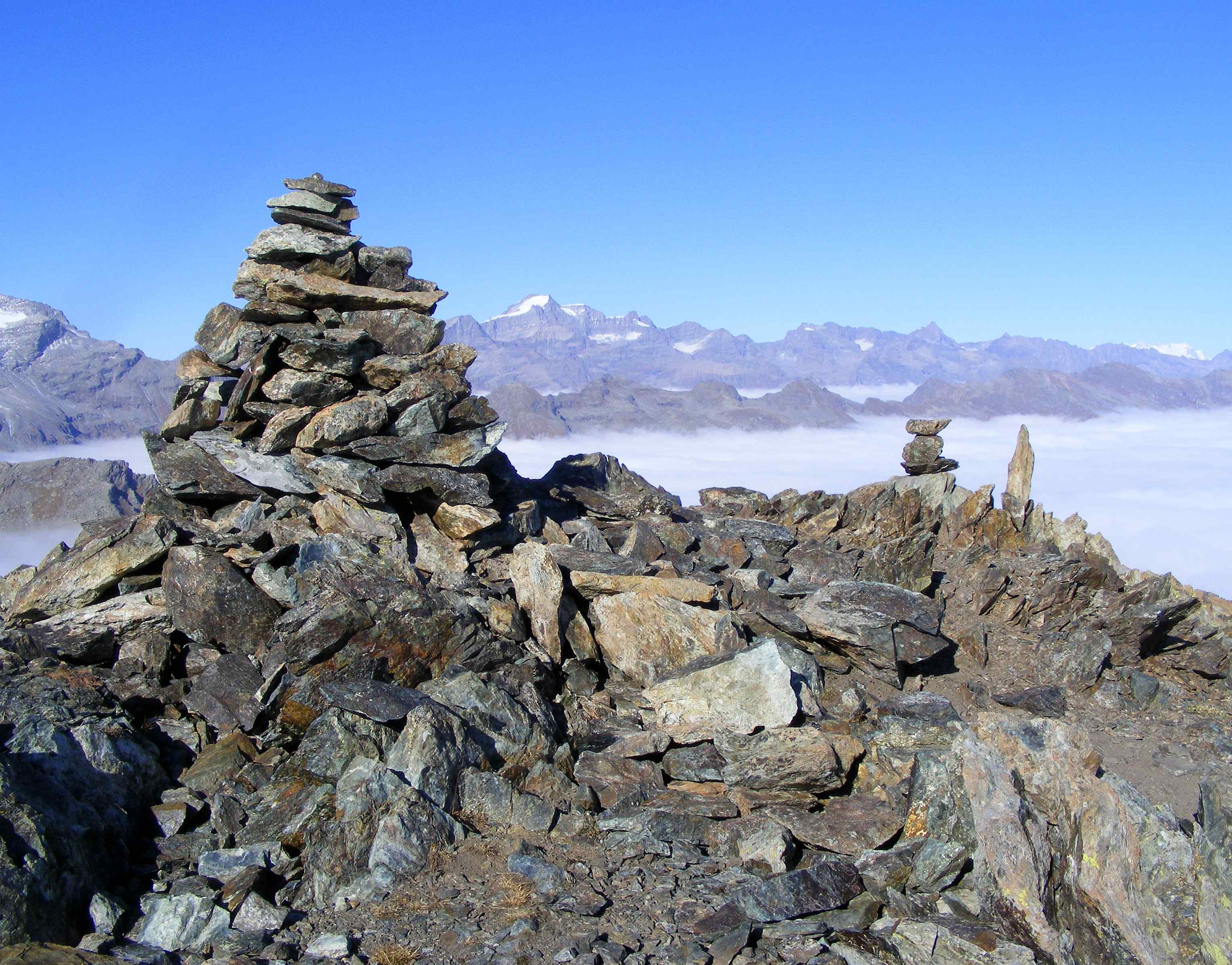 Punta Rossa di Sea (TO, Italy): in the background Gran Paradiso and Monte Rosa